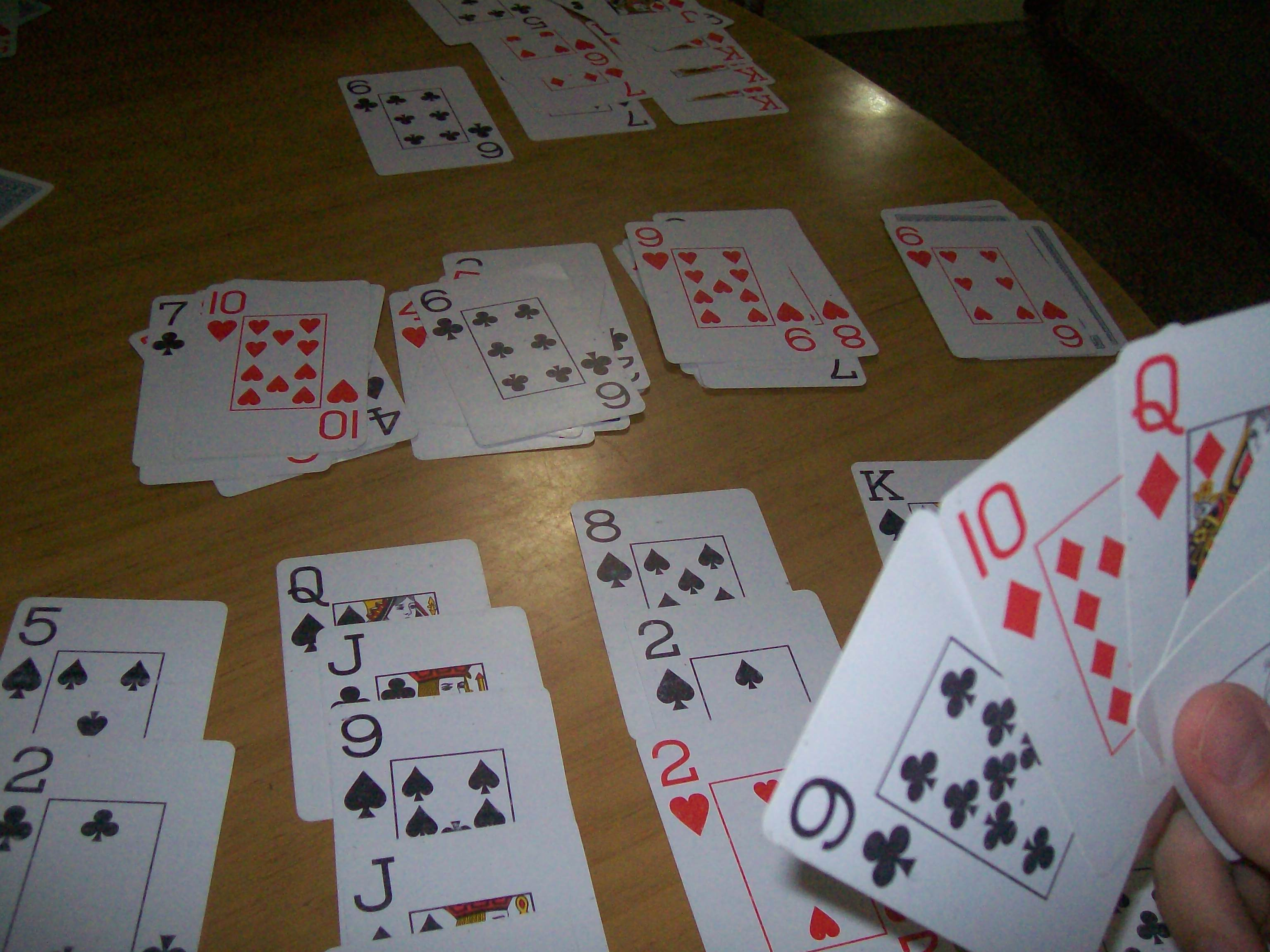 Playing Crapó - card game.